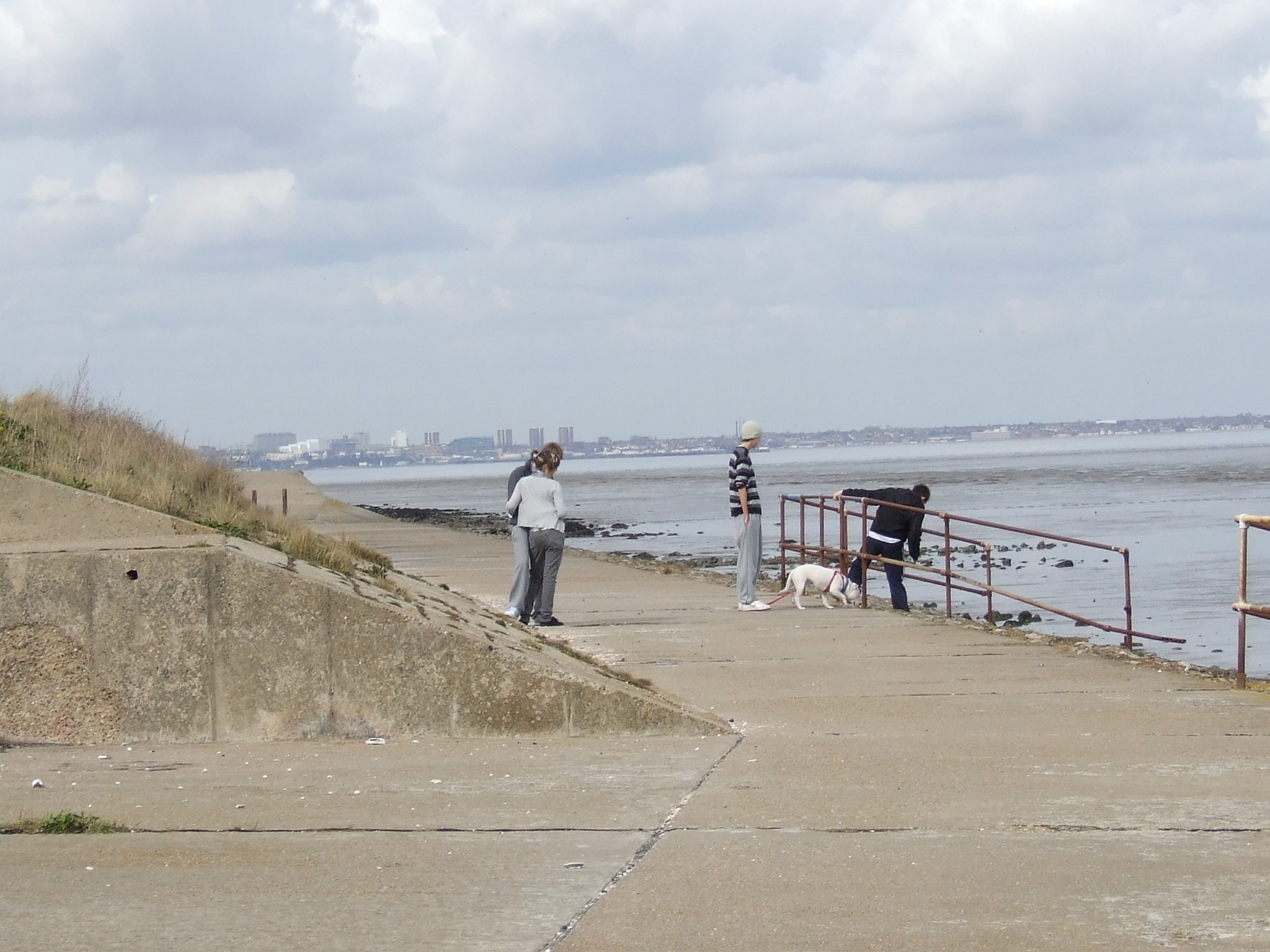 Grain, Kent in the civil parish of Isle of Grain, is a village on the Hoo Peninsula. Kids on the foreshore at Grain, the River Medway to the right, and the River Thames straight ahead, with Southend in the background. - OpenStreetMap(Info)